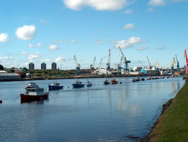 Hebburn Riverside Looking downriver from near the Bill Quay bend (behind the camera) with the cranes of Swan Hunter shipyard, Wallsend on the opposite bank. Sadly this great yard ceased operation in 2006 and the iconic cranes were sold in early 2007.